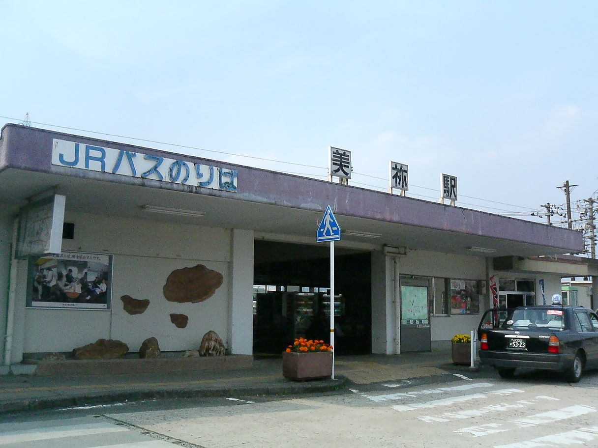 Mine Station, Mine Line, West Japan Railway Company.